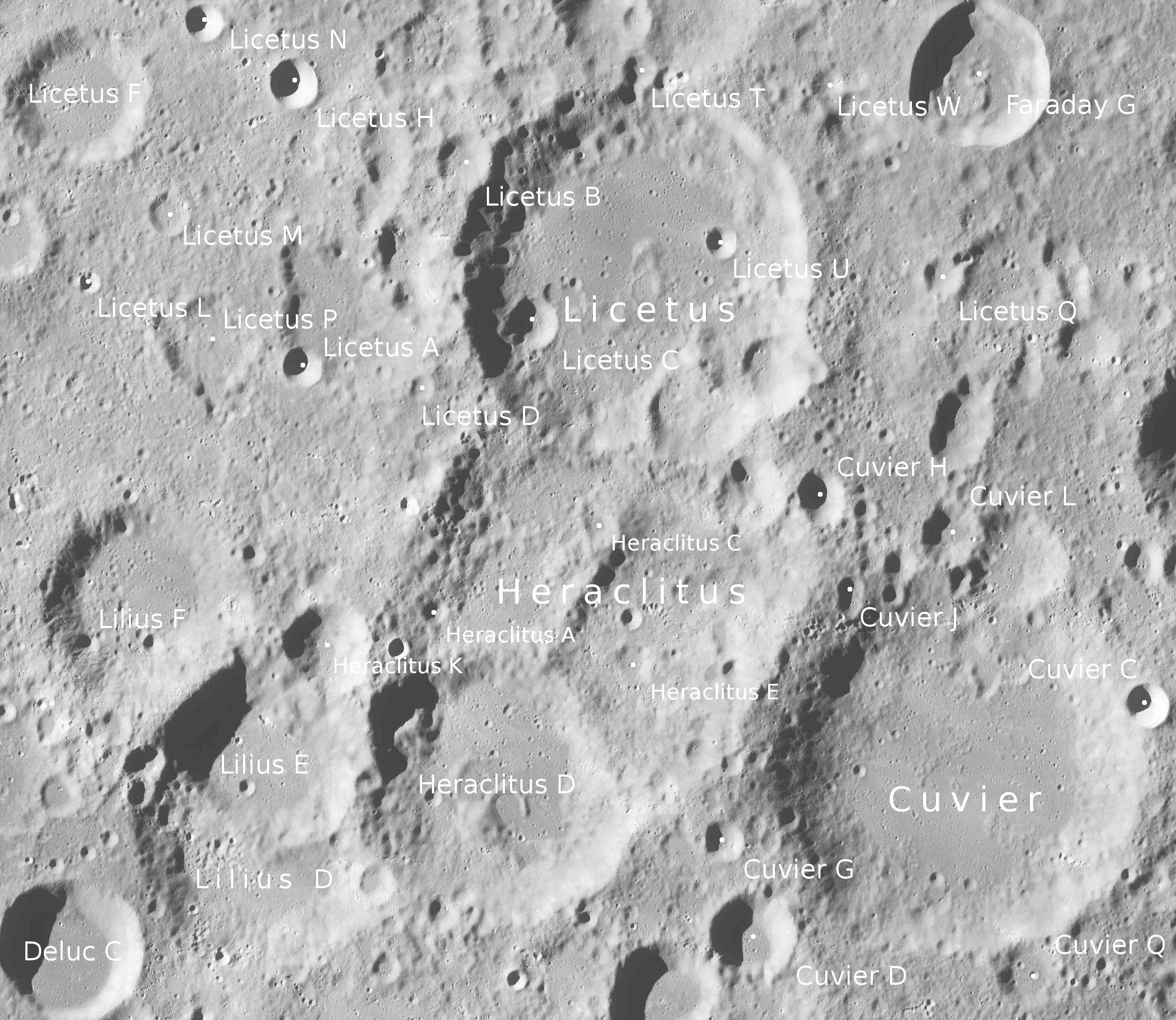 Craters Heraclitus, Licetus and Cuvier (detail of LRO - WAC global moon mosaic; Mercator projection)